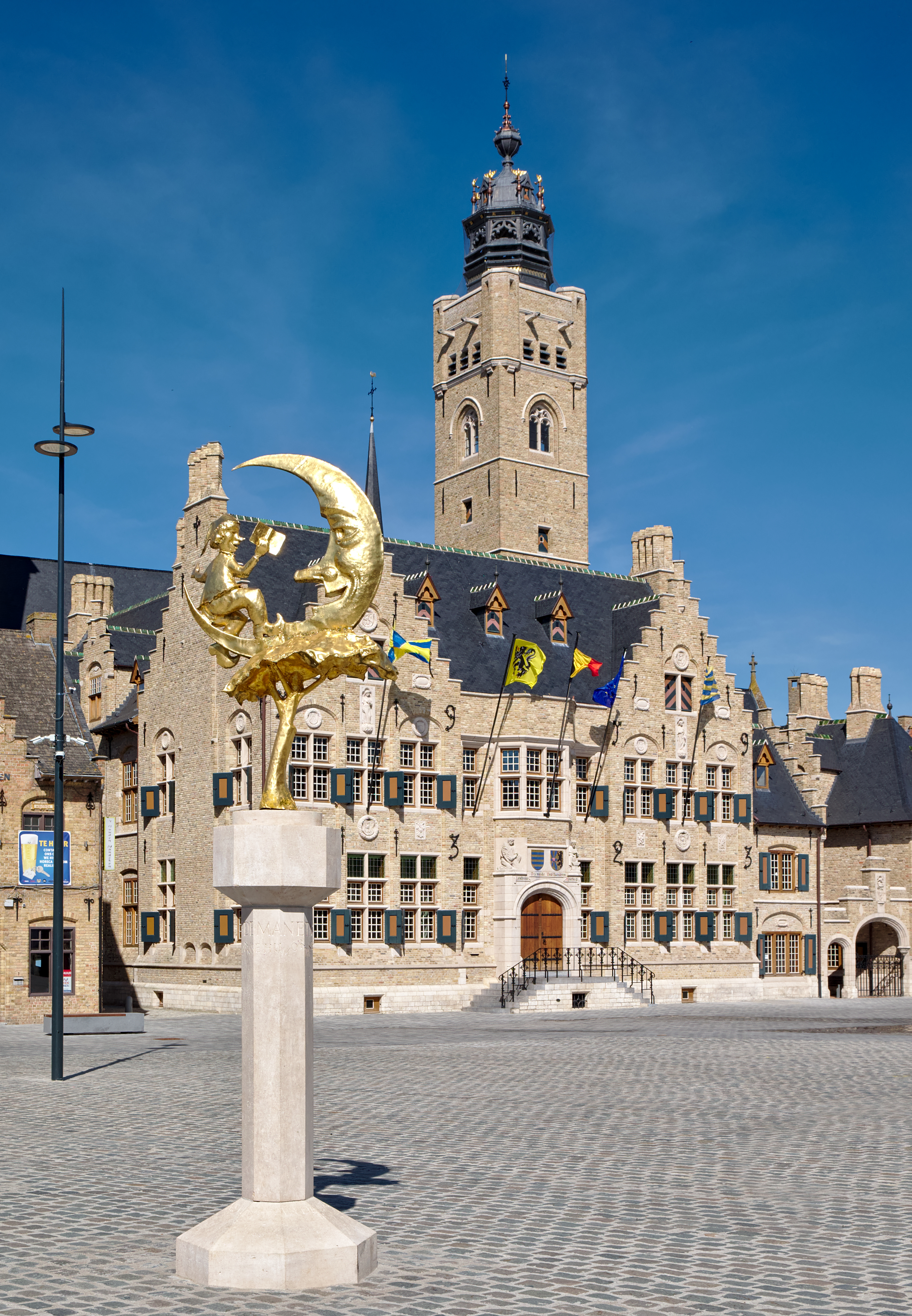 Belfry of Diksmuide and statue of a man on the moon ("'t Manneke uit de Mane") This photo of immovable heritage has been taken in the Flemish Region This place is a UNESCO World Heritage Site, listed as Belfries of Belgium and France.